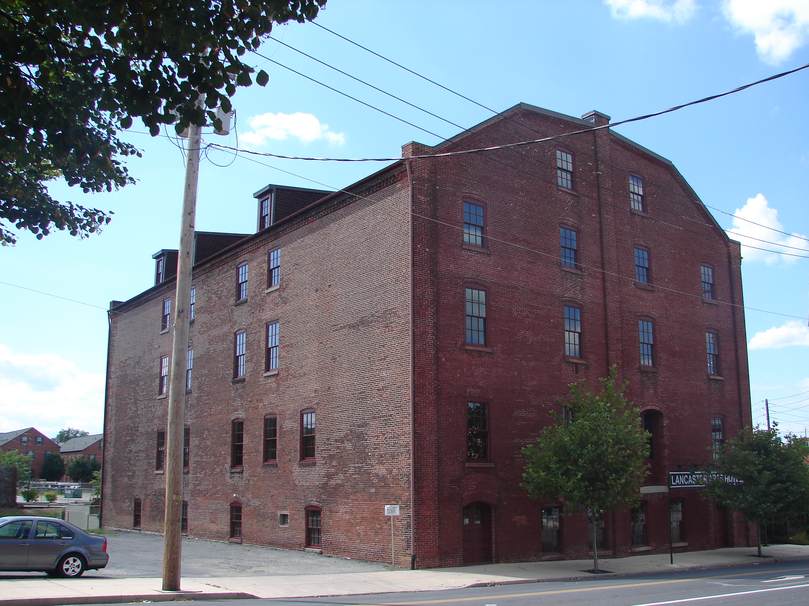 Lancaster Arts Hotel - awesome hotel inside. Part of the Harrisburg Avenue Tobacco Historic District on the NRHP since September 21, 1990. At Harrisburg Avenue at North Mulberry Street, in the Stadium District, Lancaster, Pennsylvania. Part of the NRHP multiple submission for tobacco industry buildings in Lancaster